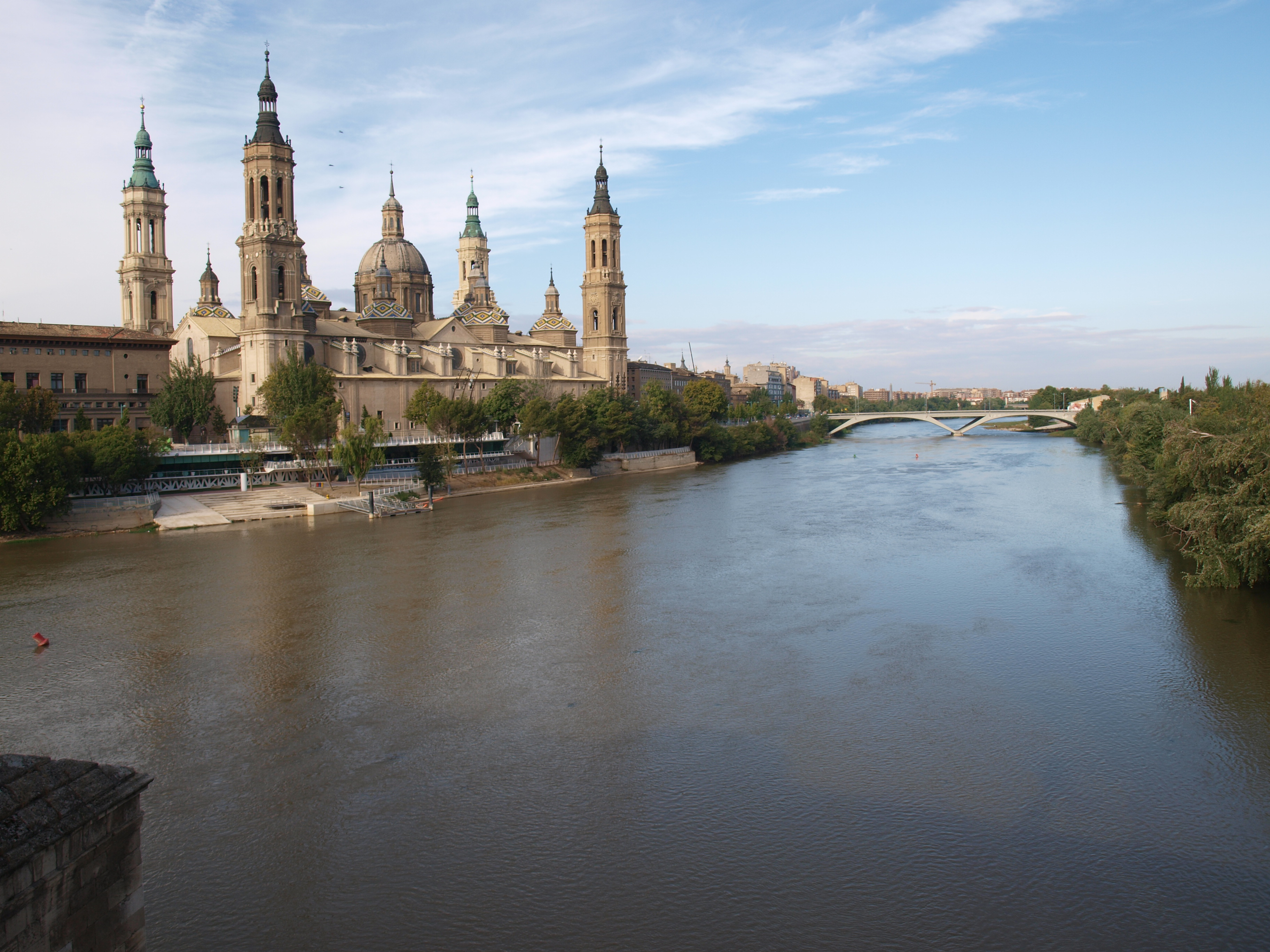 basílica de Nuestra Señora del Pilar, Zaragoza